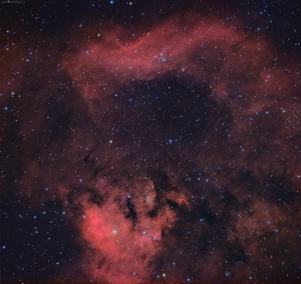 NGC 7822 imaged using amateur telescope.